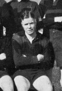 Photo of Noel Burrows in 1933